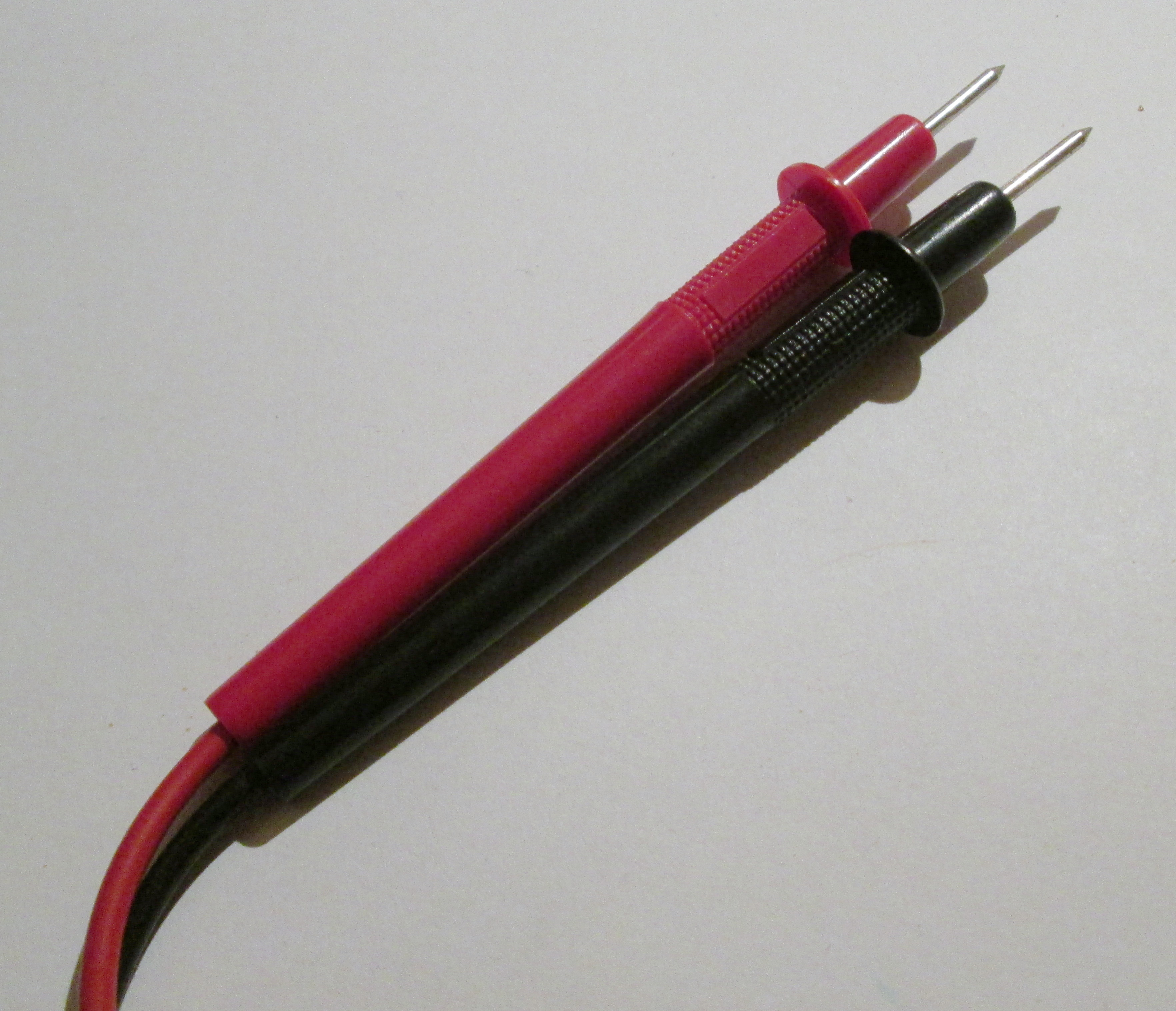 Electronic multimeter test leads.